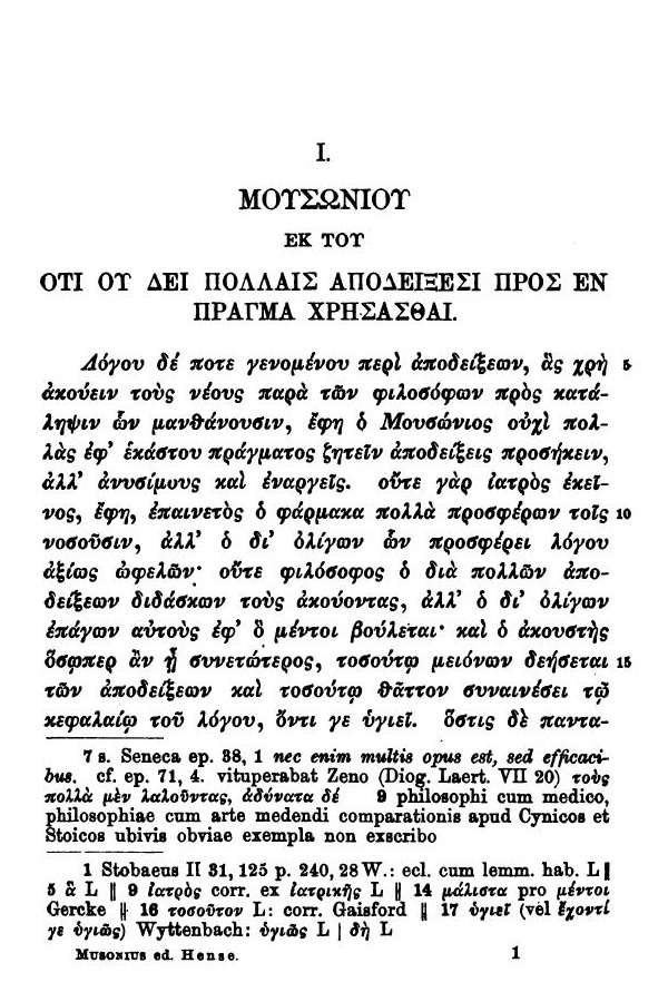 Page 1 of the works of Gaius Musonius Rufus (C. Musonii Rufi reliquiae) edited by O. Hense in the Teubner series, 1905. Discourse 1, in Greek, entitled "ΟΤΙ ΟΥ ΔΕΙ ΠΟΛΛΑΙΣ ΑΠΟΔΕΙΞΕΣΙ ΠΡΟΣ ΕΝ ΠΡΑΓΜΑ ΧΡΗΣΑΣΘΑΙ" ("That There is No Need of Giving Many Proofs for One Problem")